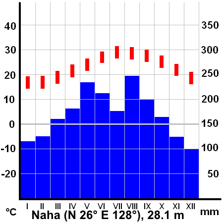 Climate diagram of Naha, Japan. Map based Image:ClimateTemplate.PNG Source:JMA data